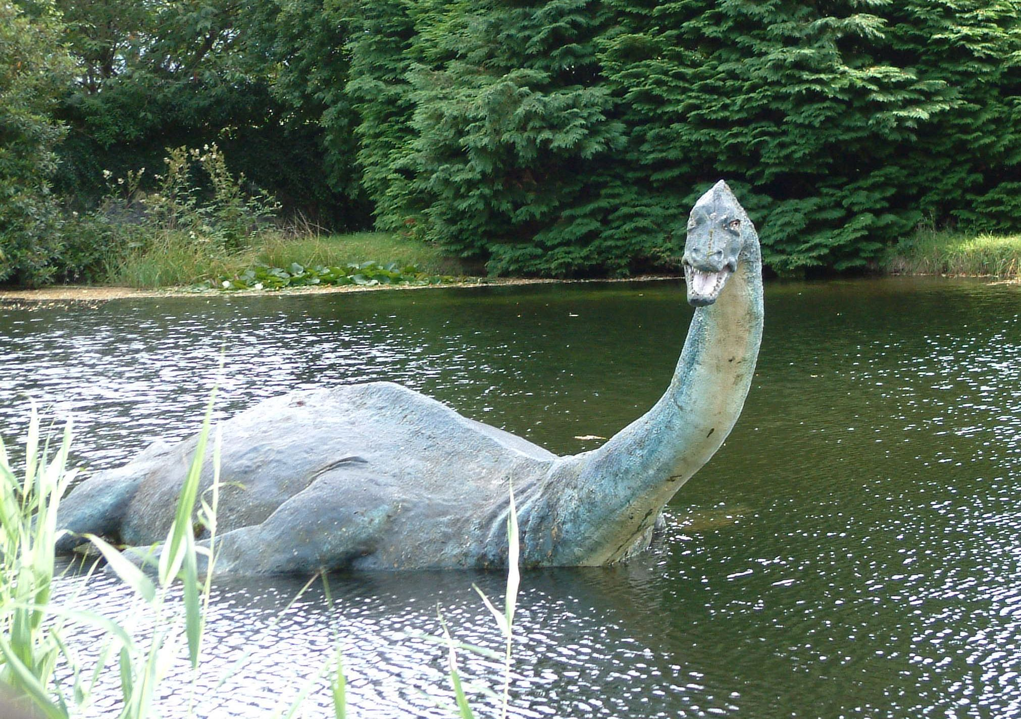 Nessie replica in Scotland.